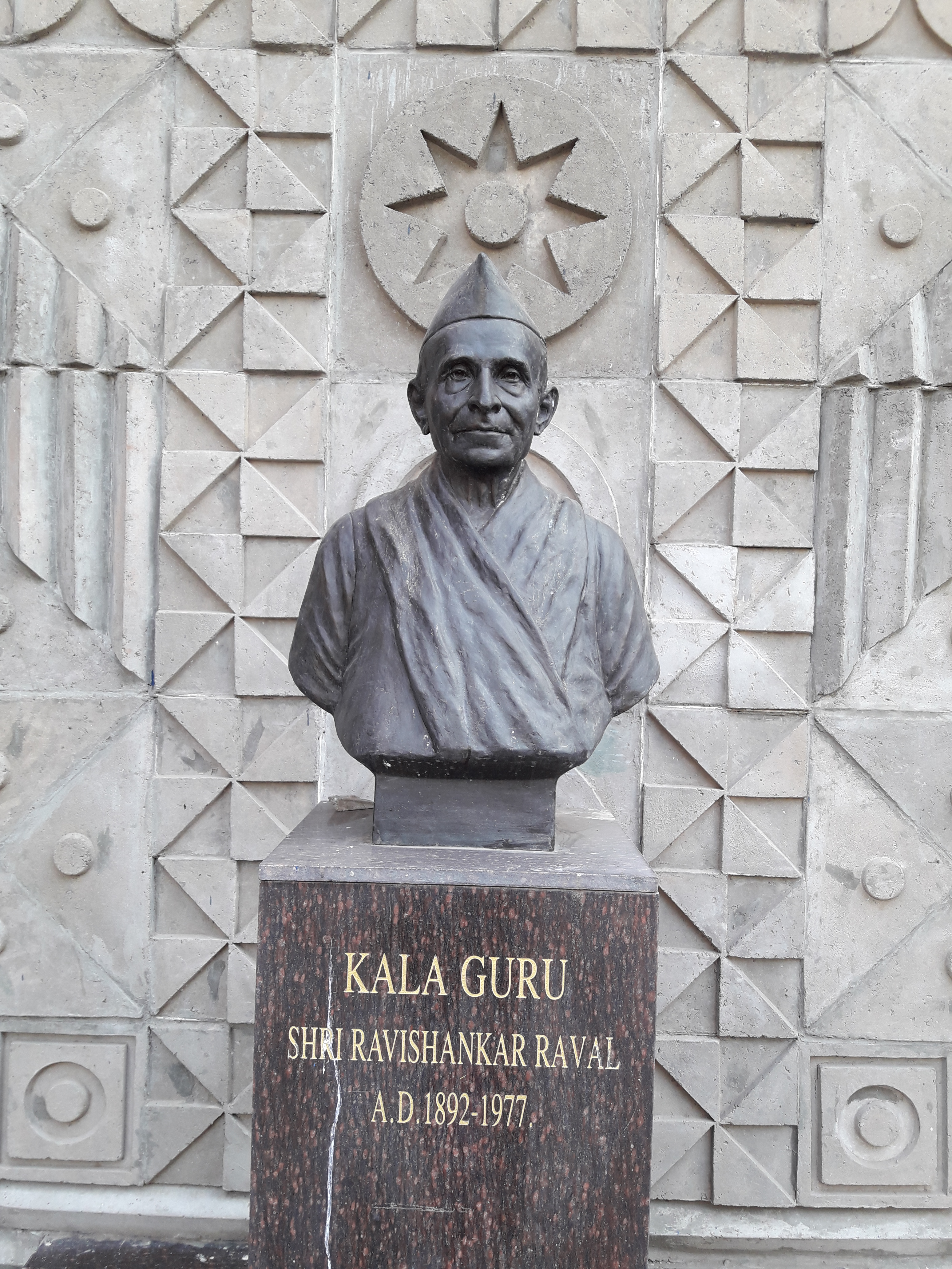 Bust of Ravishankar Raval at Ravishankar Raval Kala Bhavan, Law Gauarden, Ahmedabad, Gujarat, India